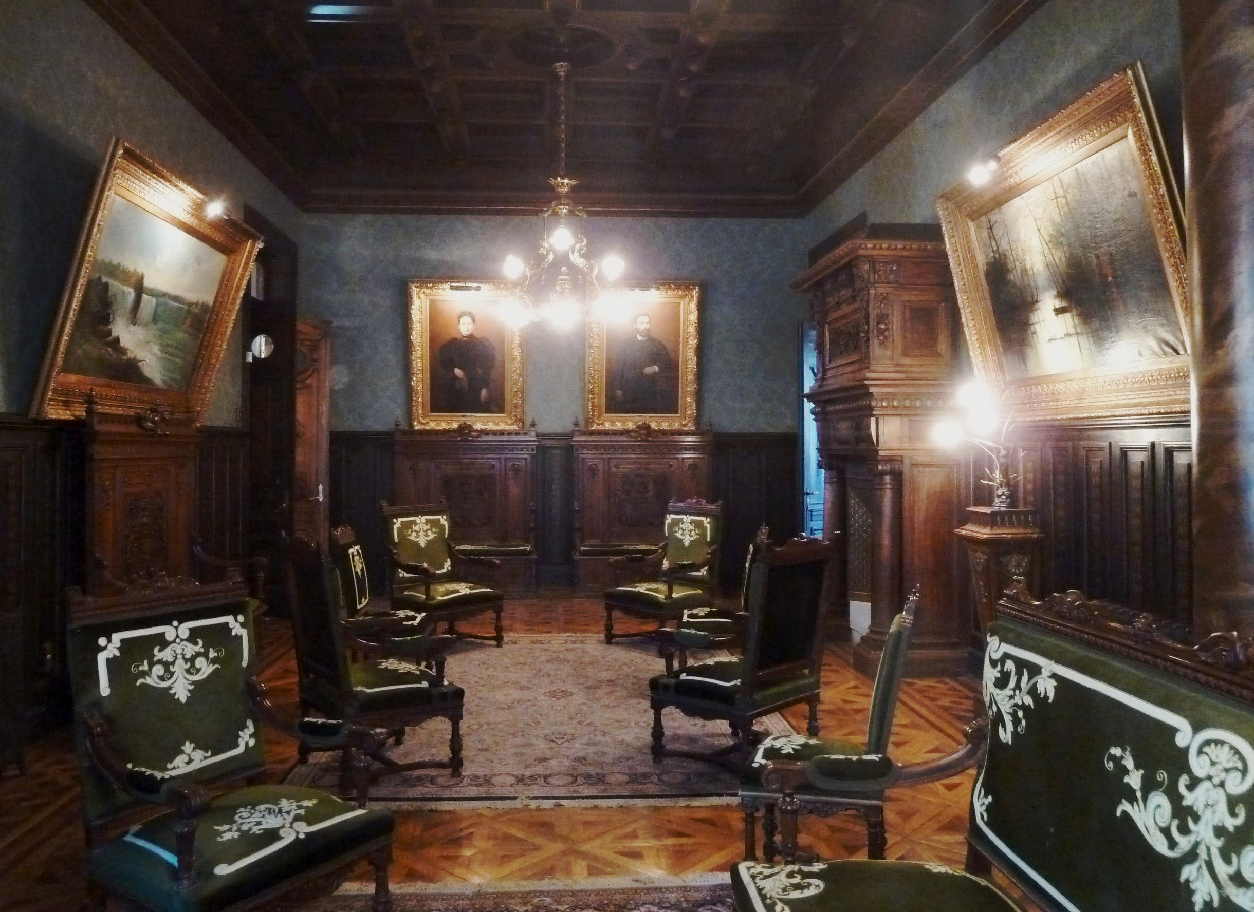 Palacio construido entre 1895 y 1905 - Punta Arenas - Chile